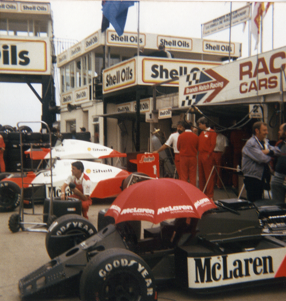 The McLaren pit garages during the 1986 British Grand Prix.